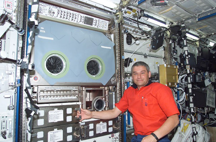 Valery Korzun, commander of the Expedition Five mission aboard the International Space Station, is shown June 5 with the Microgravity Science Glovebox following its installation in the Destiny Laboratory module. The Glovebox is a sealed container with built-in gloves that make it possible for crews to safely do more hands-on science experiments involving fluids, flames, particles and fumes.